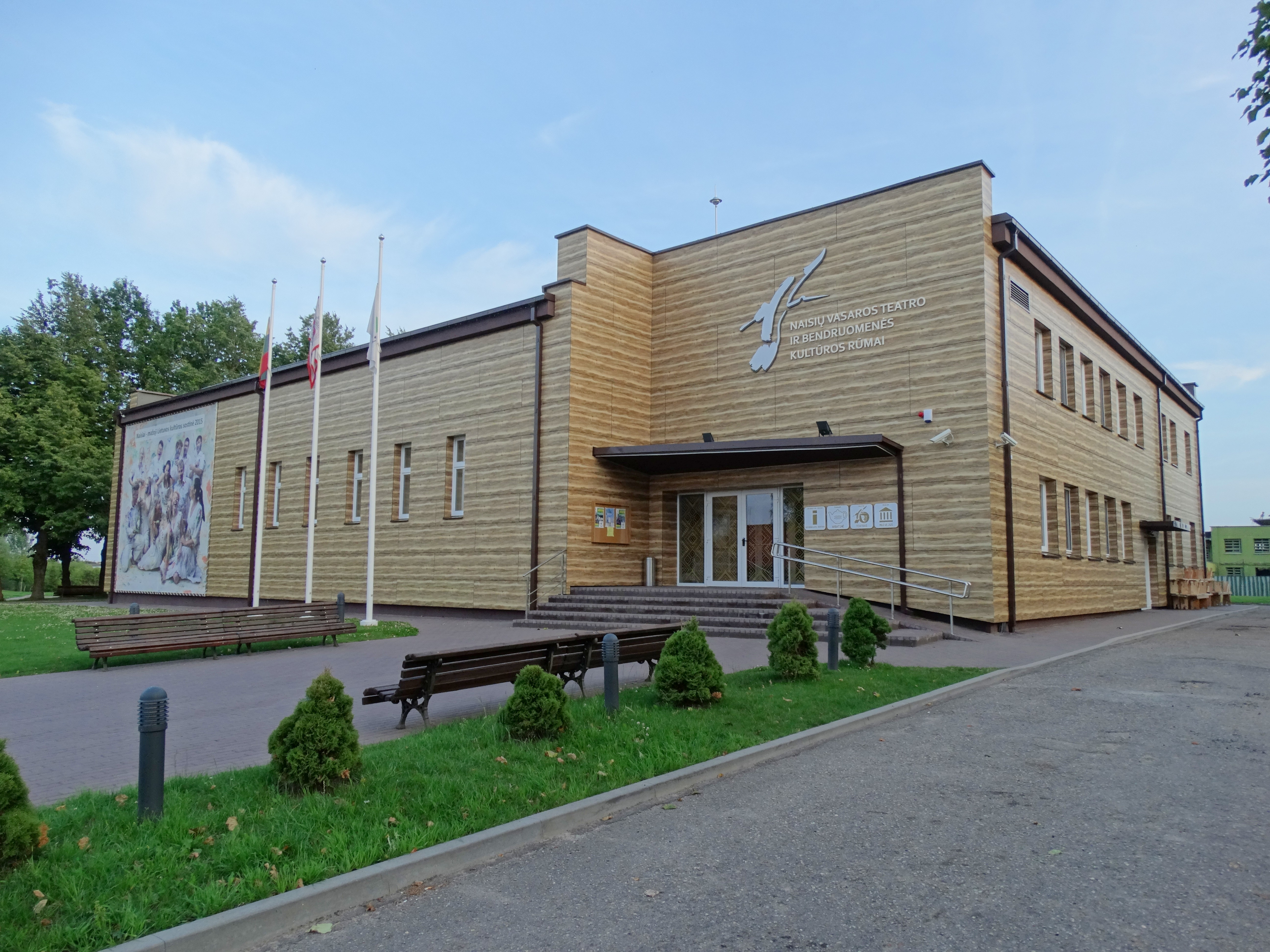 Cultural Centre, Naisiai, Šiauliai district, Lithuania